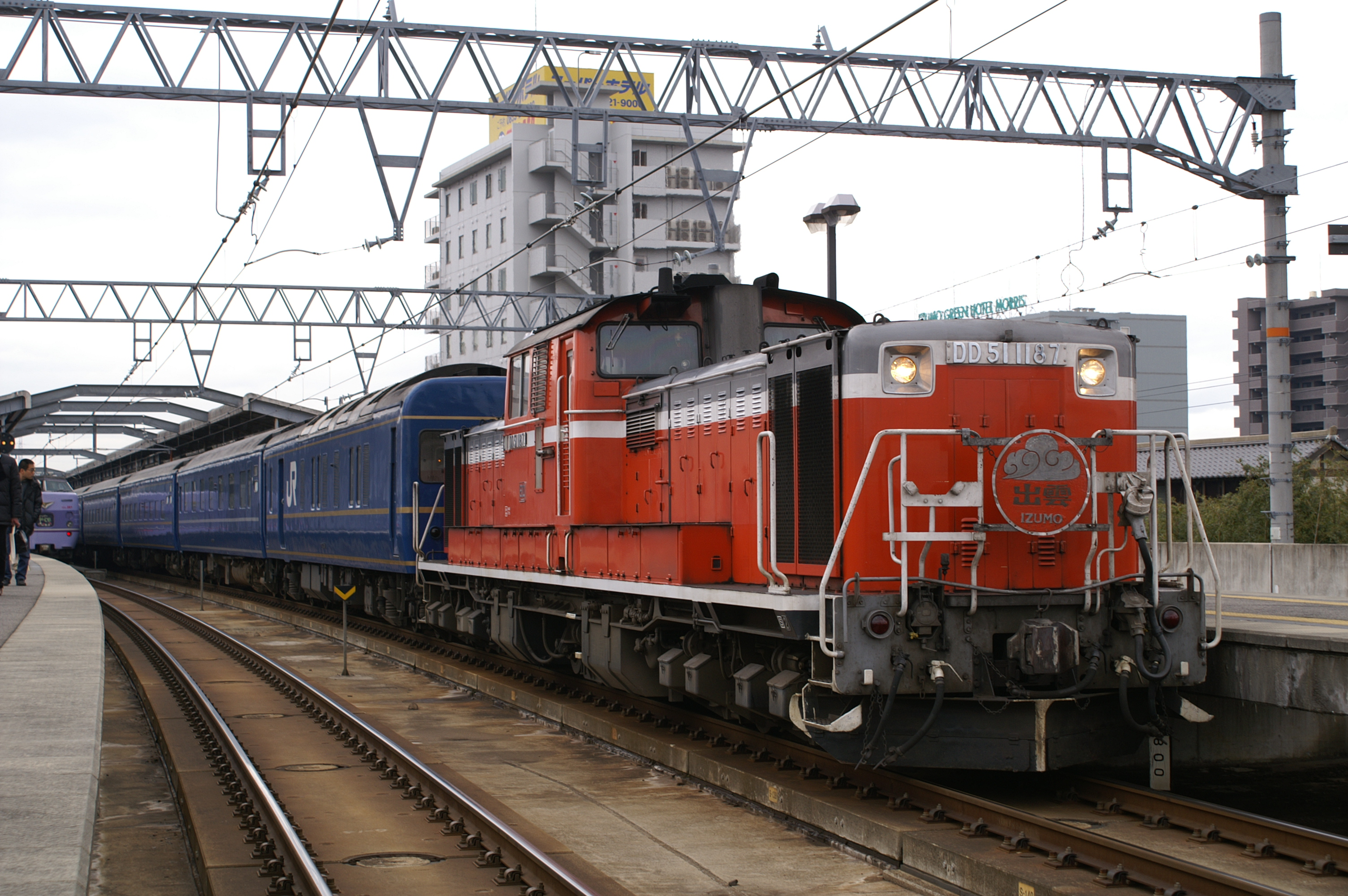 JR West class DD51 diesel locomotive DD51 1187 on the Izumo sleeping car service at Izumoshi Station